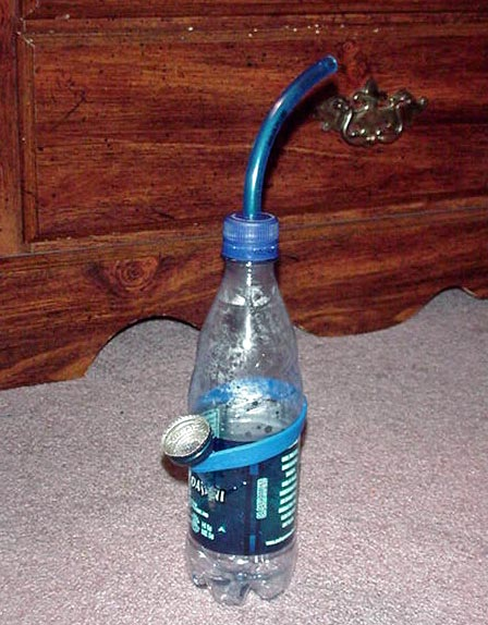 Craft (not industrially manufactured) water pipe (bong)